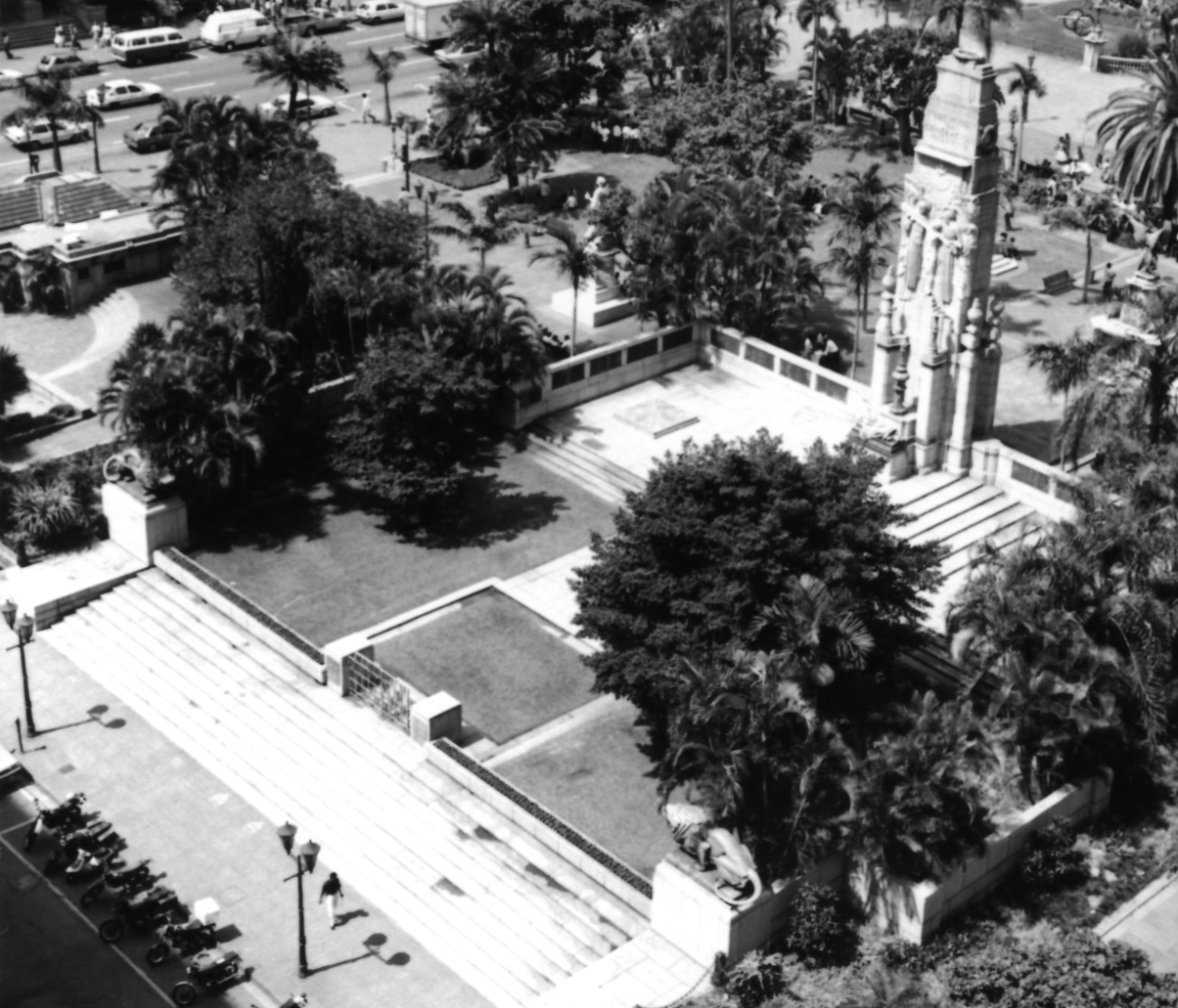 The Cenotaph in Farewell Square, Durban, South Africa, around 1994. The Durban cenotaph was unveiled in 1926 as a memorial to fallen soldiers of World War I. Standing about 11 metres (36 feet) high, the monument is built of granite decorated with glazed ceramic tiles depicting two angels raising the soul of a dead soldier. The design was the result of a competition in 1921, won by the Cape Town architectural firm of Eagle, Pilkington and McQueen. The ceramics were made in England by Harold and Phoebe Stabler of the Poole Pottery.